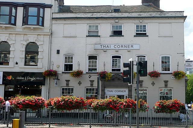 Thai Corner An excellent Thai restaurant on the corner of West Street and Friar Street. The building was formerly a hotel, then a pub. The shop to the left is a charity shop of 'Helen and Douglas House' a hospice in Oxford for children and young adults with life-shortening conditions.